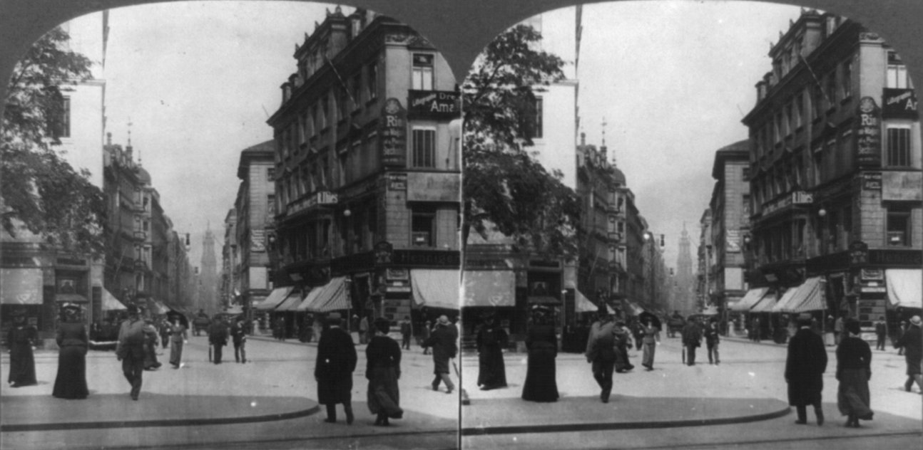 Dresden, Germany, Seestraße, 1906 stereo view